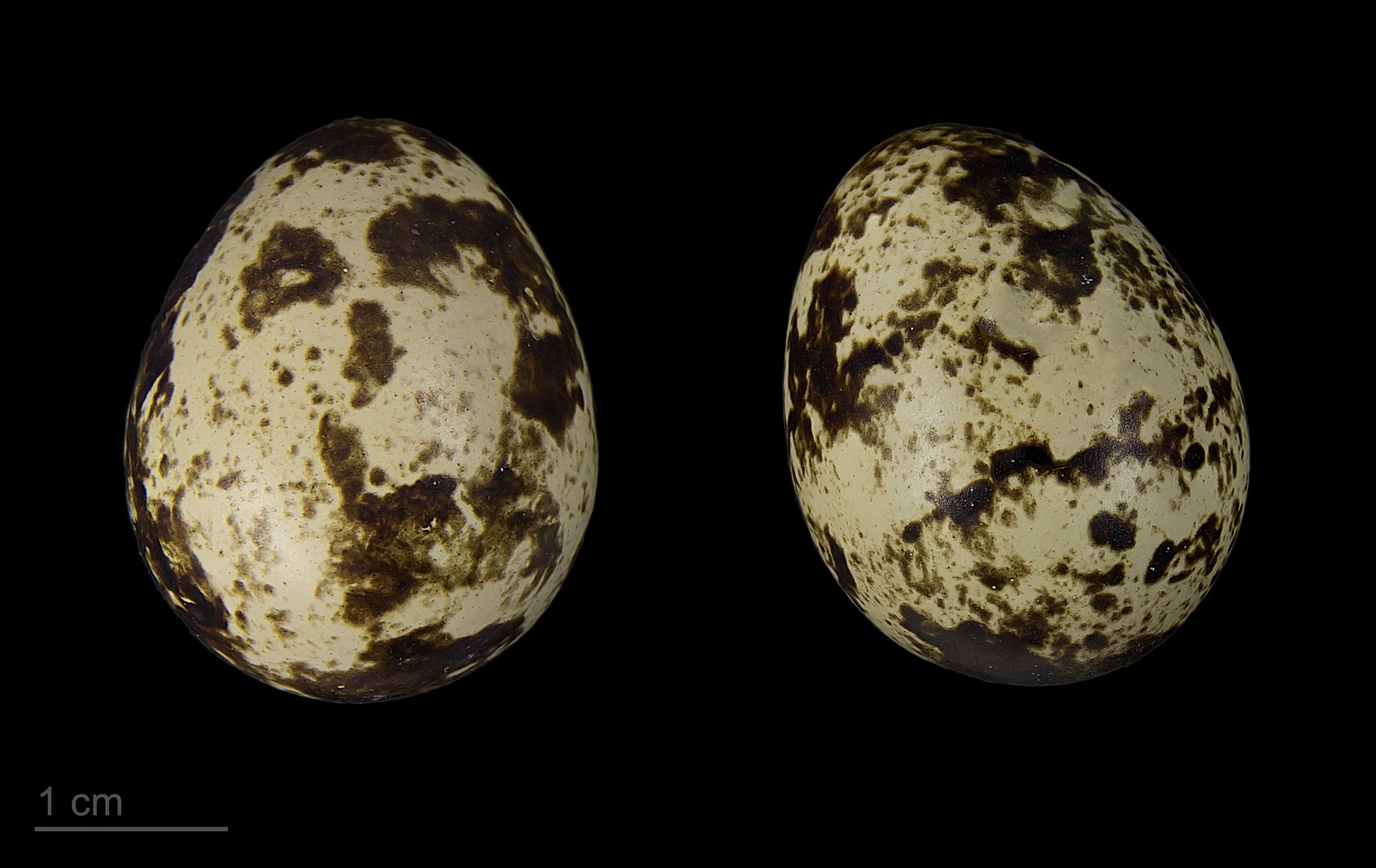 Egg of common quail (confisa) Collection of Jacques Perrin de Brichambaut.